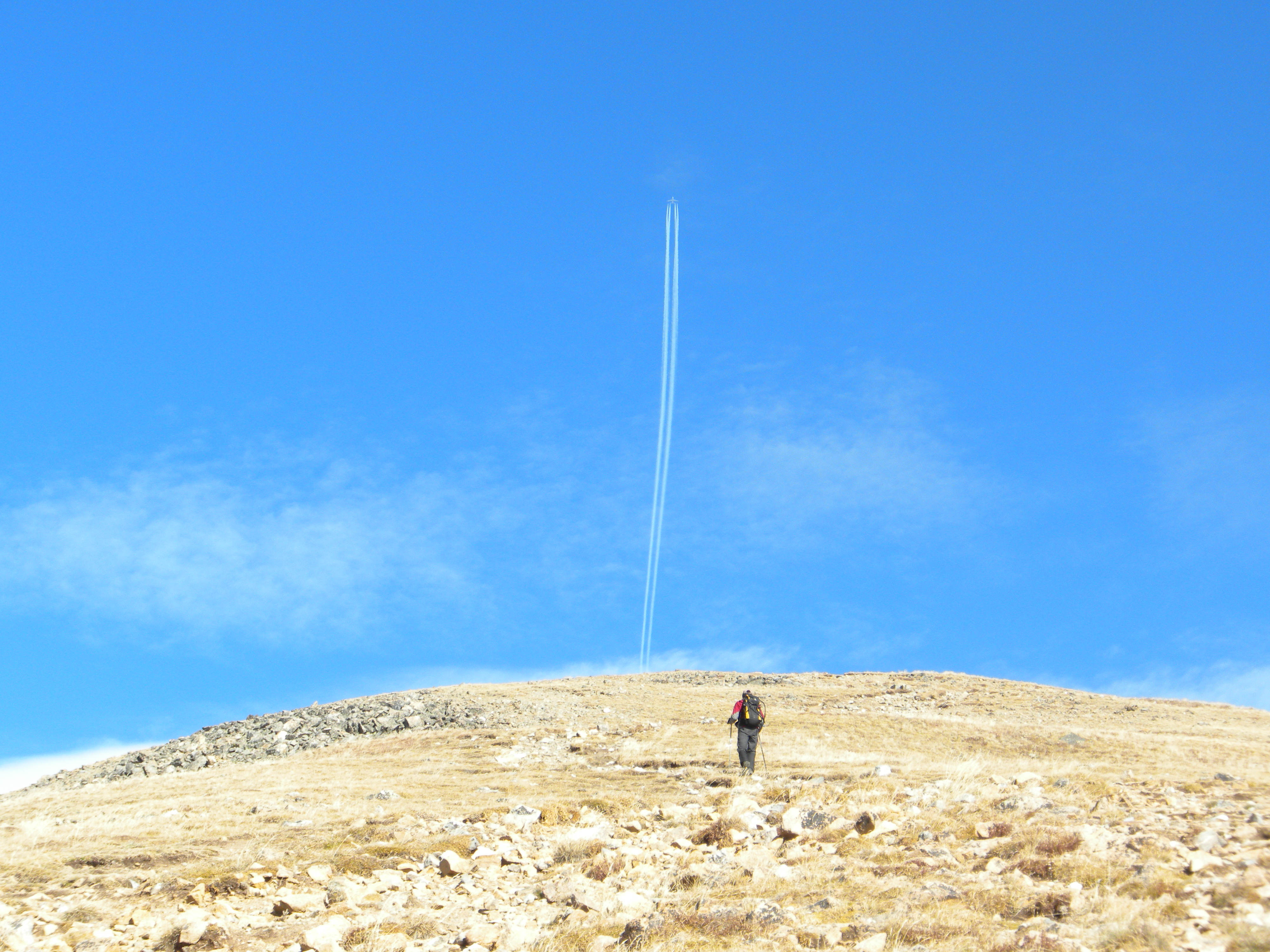 The view of the south peak of Mount Sniktau, near Silver Plume, CO, USA, with an airplane flying above and a hiking ascending the mountain. Taken at approximately 12,400 ft above sea level.